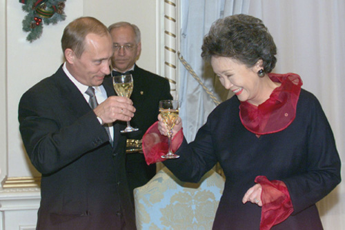 OTTAWA. An official dinner given by Adrienne Clarkson, the Governor General of Canada.